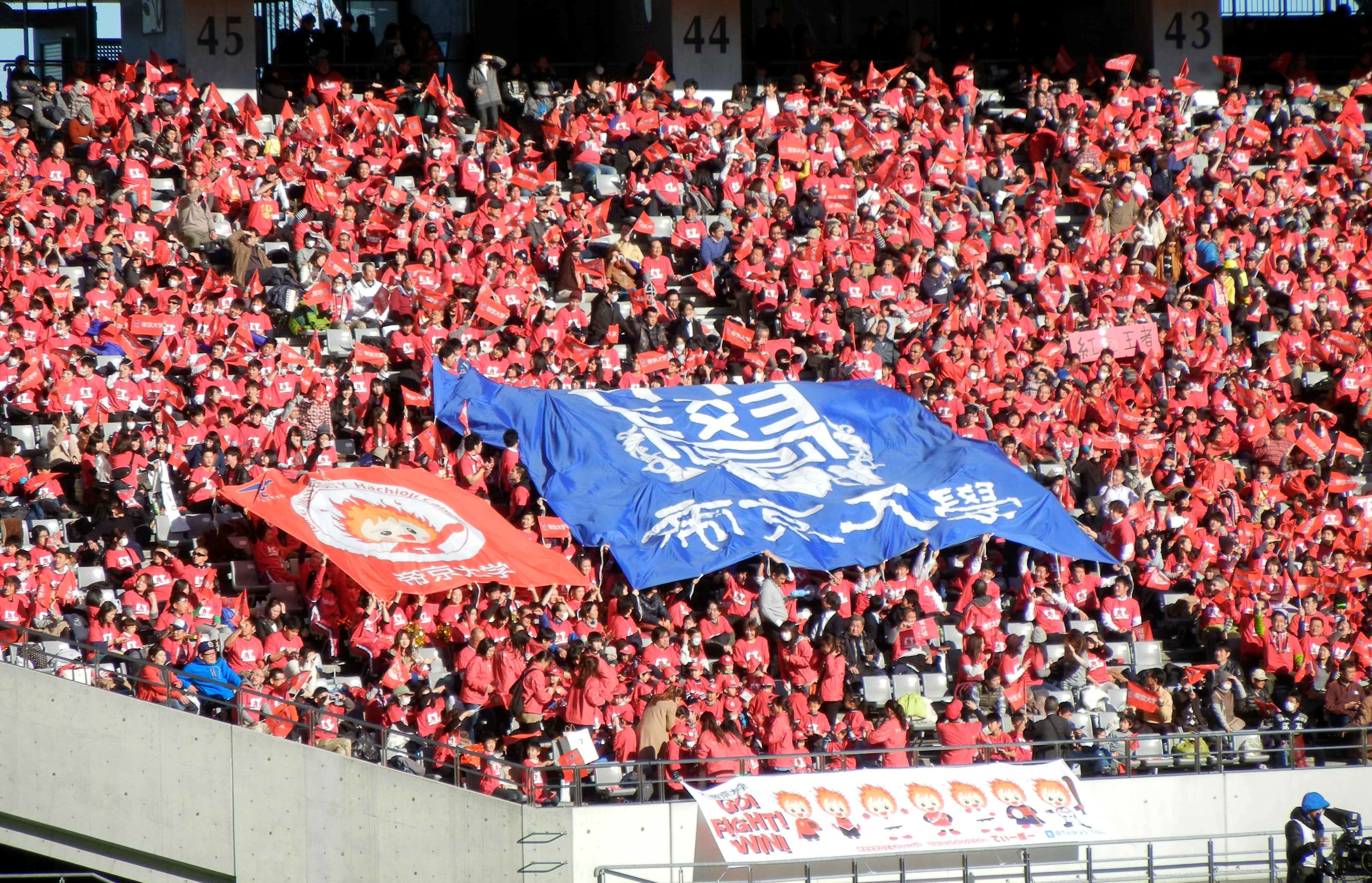 Teikyo University Rugby Football Club Fans